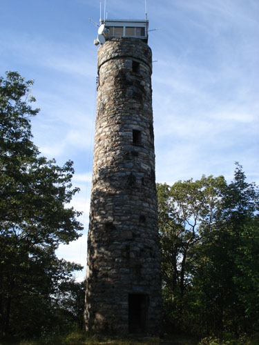 The rock fire tower on the top of Massaemett Mountain in Shelburne, Massachusetts.